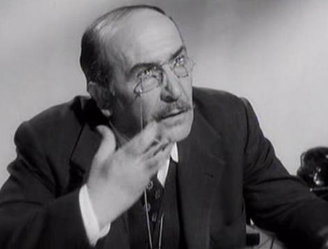 screenshot from the film Via Padova 46 (1953)